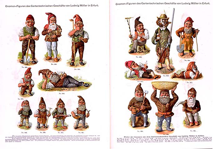 Image of pages from a catalogue, depicting garden gnomes.